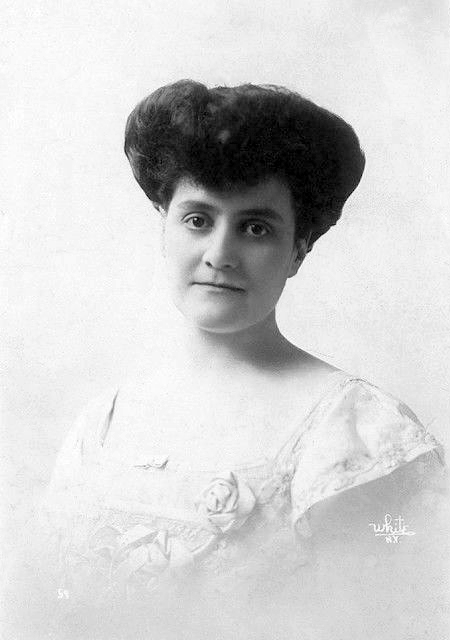 Photograph of Ethel Jackson, star of The Merry Widow